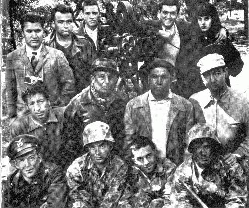 The crew and the cast (except for Virginia Leith, who is probably the photographer) of the film "Fear and Desire"